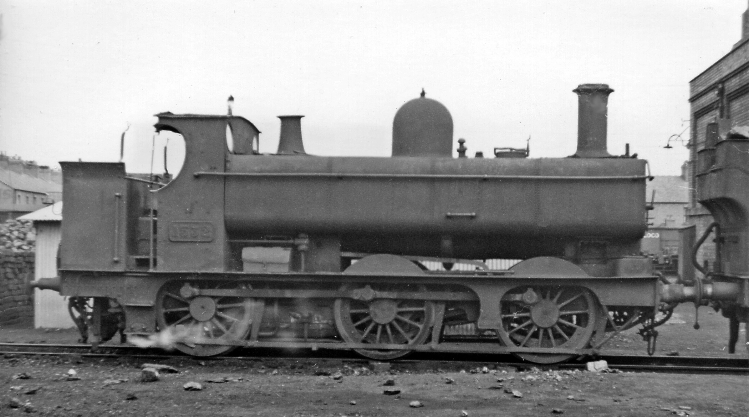 GWR Pannier Tank 0-6-0T at Croes Newydd Depot, Wrexham. This 1501 Class 0-6-0T, No. 1532, dates back to 9/1879 when it was built at Wolverhampton Works as a standard saddle-tank, acquired its panniers in 1921 and just survived into BR, being withdrawn in 7/48.